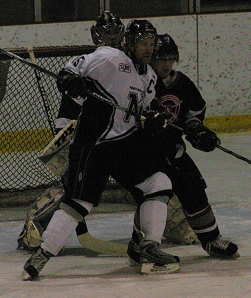 Fort William North Stars' captain Sean Bassingthwaite screens the net in a game in Fort Frances against the Jr. Sabres on 12 Jan. 2007.